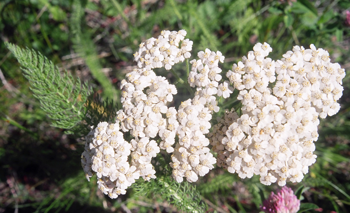 Yarrow (Achilea millefolium), also known as milfoil or tansy is common throughout the Rockies, and will be familiar to European visitors. It bears flat clusters of small white flowers on a tall, slender stalk. The leaves are fern-like, and the flowers have a sage-like odor. Ø2004 D. Windrim Captioned As {}